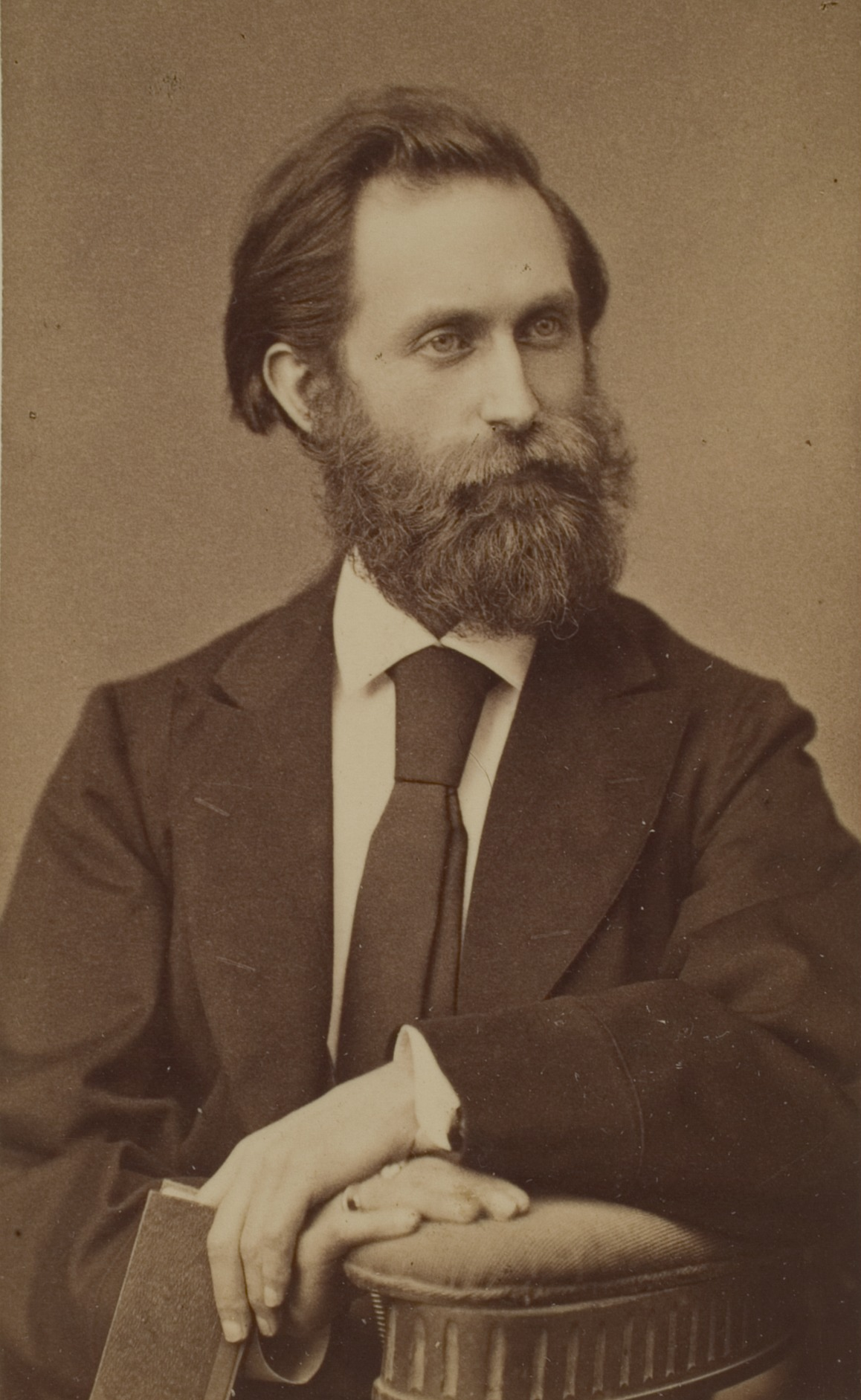 Gotthold Heinrich Otto Caspari, Psychologe und Anthropologe, 1877–1895 Professor in Heidelberg